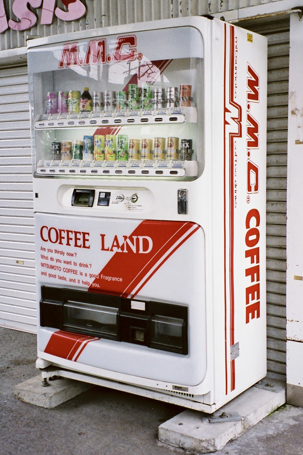 MMC's vending machine